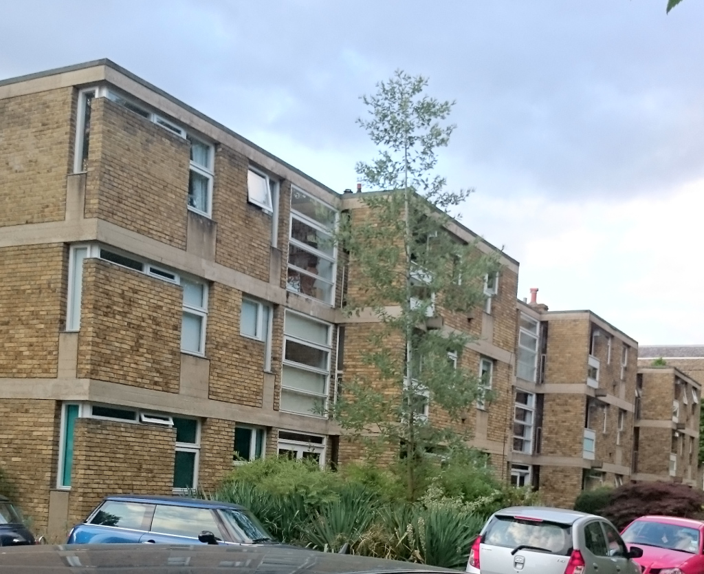 Langham House Close, Ham Common. The main block, viewed from the east. Designed by James Gowan in 1956 and built 1957-58.